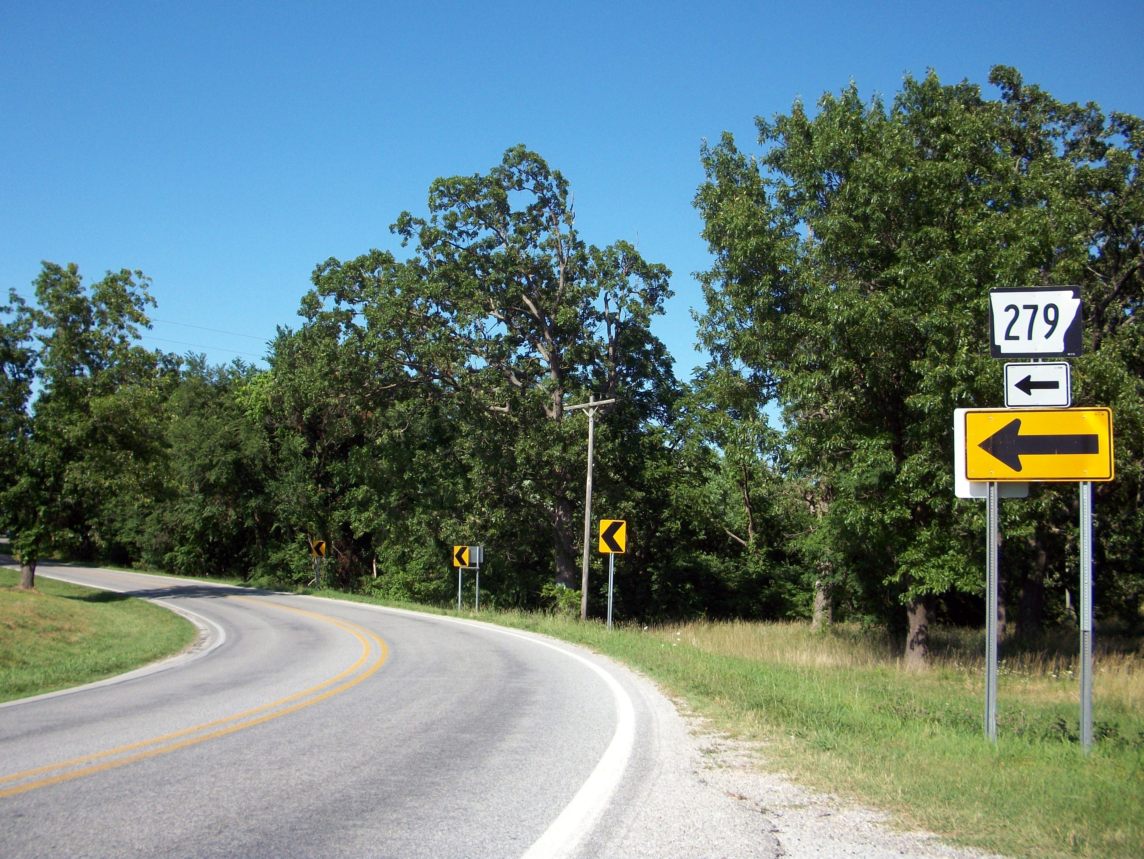 Arkansas Highway 279 curnes north just north of its junction with AR 72 in Hiwasse.